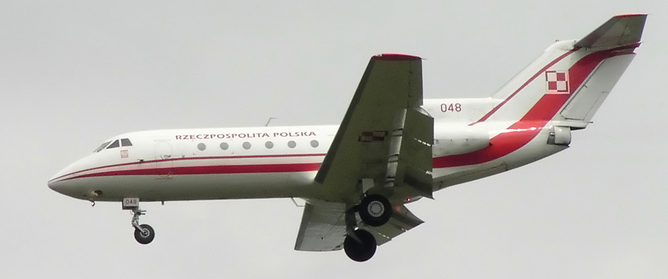 Polish Air Force Yakovlev Yak-40 (048) approaching Geilenkirchen AB, Germany